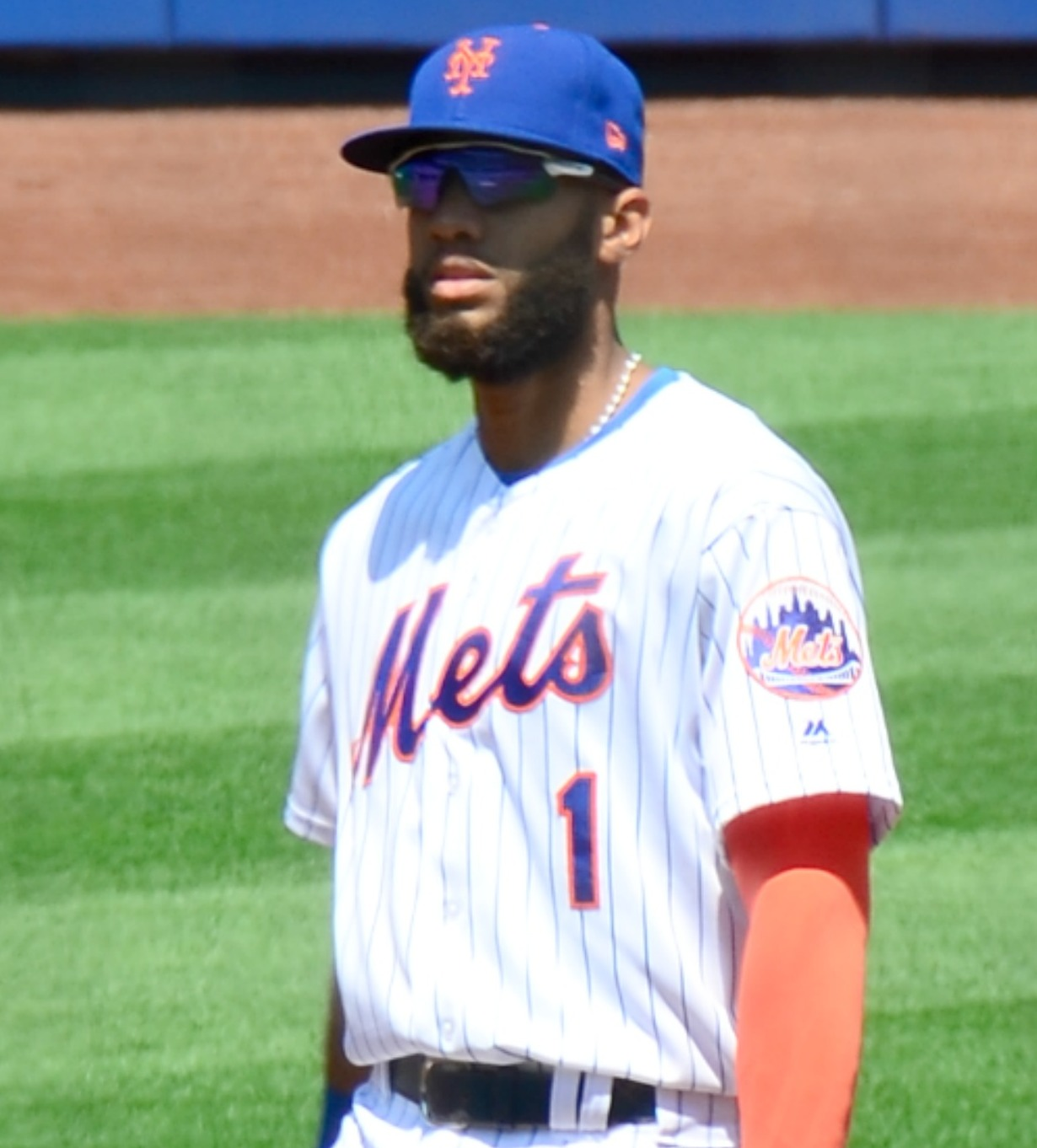 Rosario with the mets in 2017